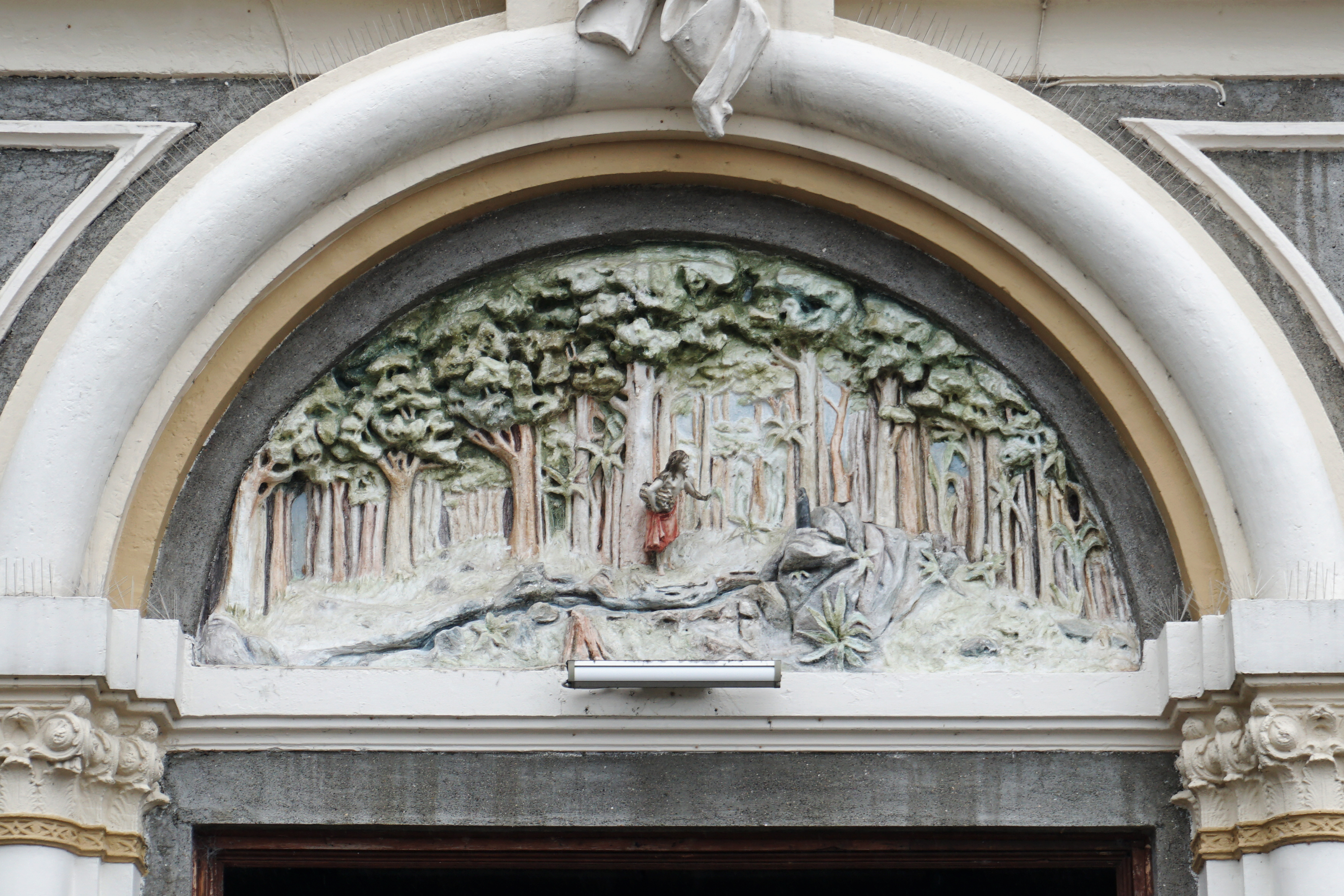 Ornamental lintel over the main entrance to Our Lady of the Angels Basilica, Cartago, Costa Rica. The ornament shows the apparition of the image of the virgin to Juana Pereira.